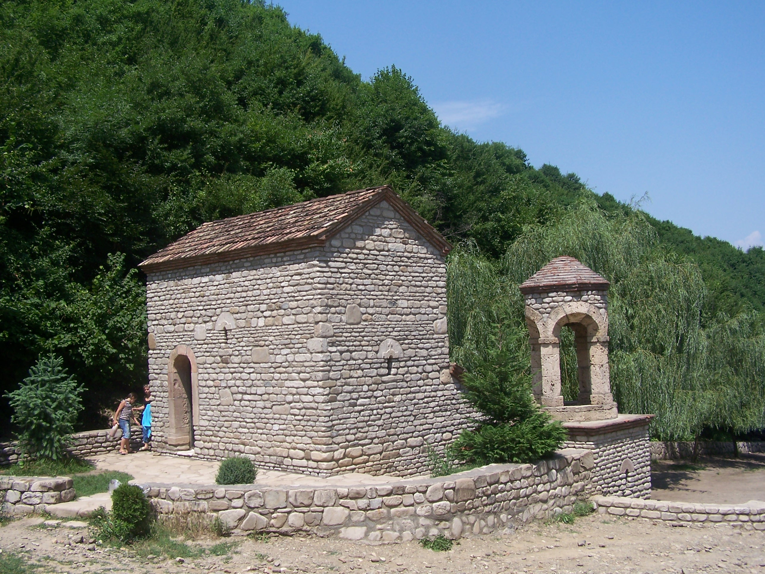 Bodbe Monastery